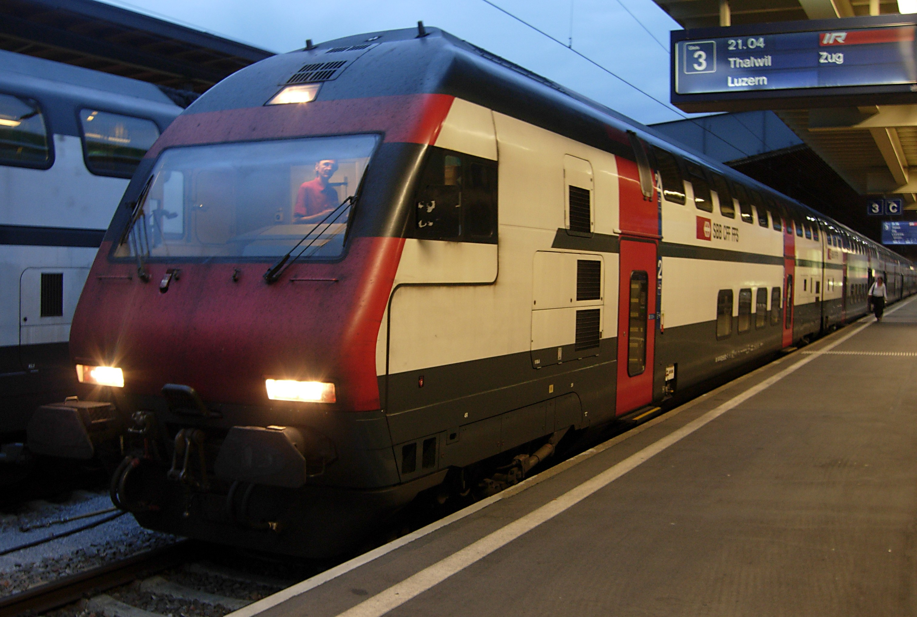 Control car Bt of the SBB (model IC 2000) in Zürich HB.